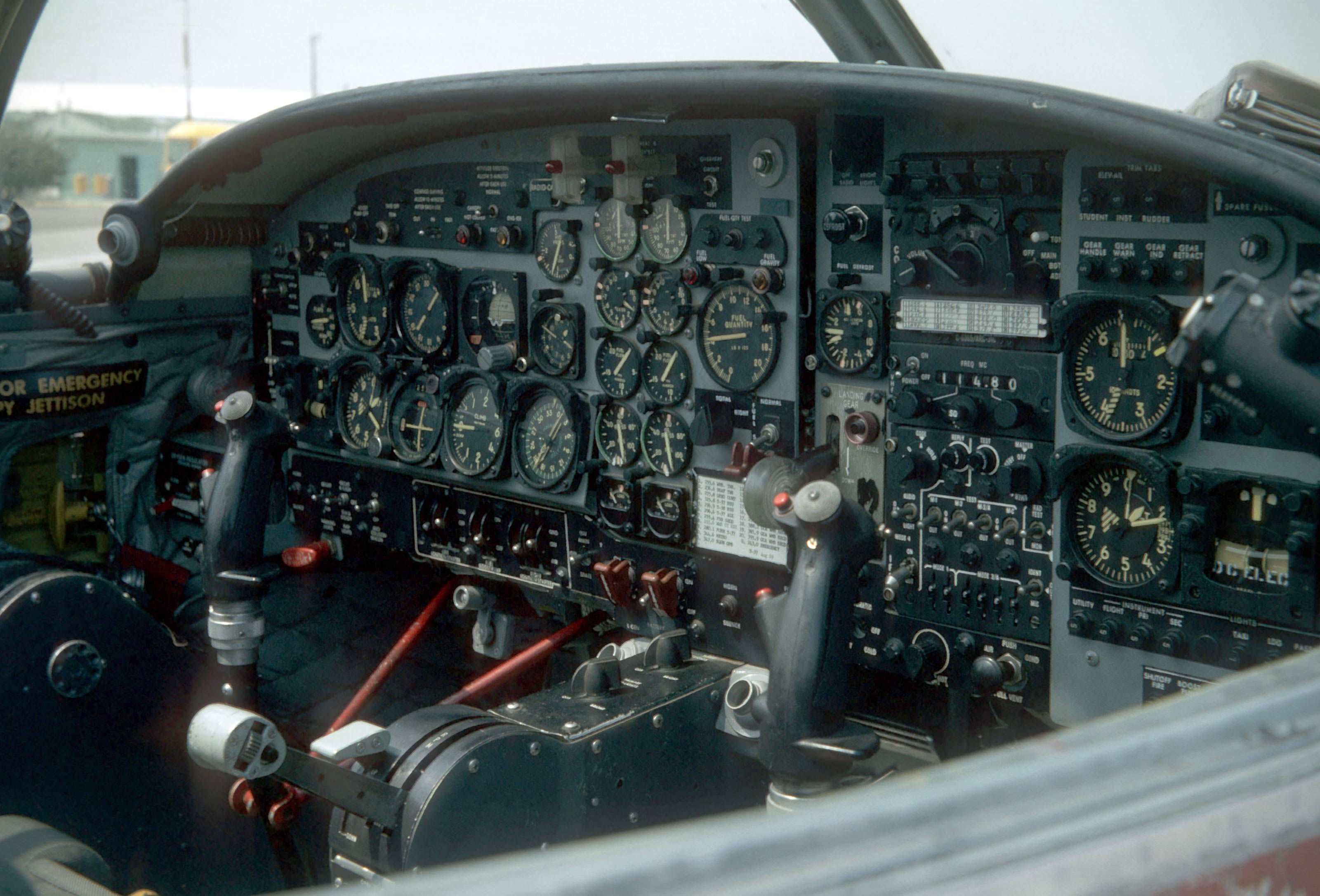 Taken on the Williams AFB flight line. Note the bright red metal bars which locked the stick in place, keeping the flight controls in a neutral position when parked, in case of high winds. The attitude indicator on the pilot side was an MM-3, while the indicator on the co-pilot side was a J-8, a very primitive yellow line on a black background (out of frame).